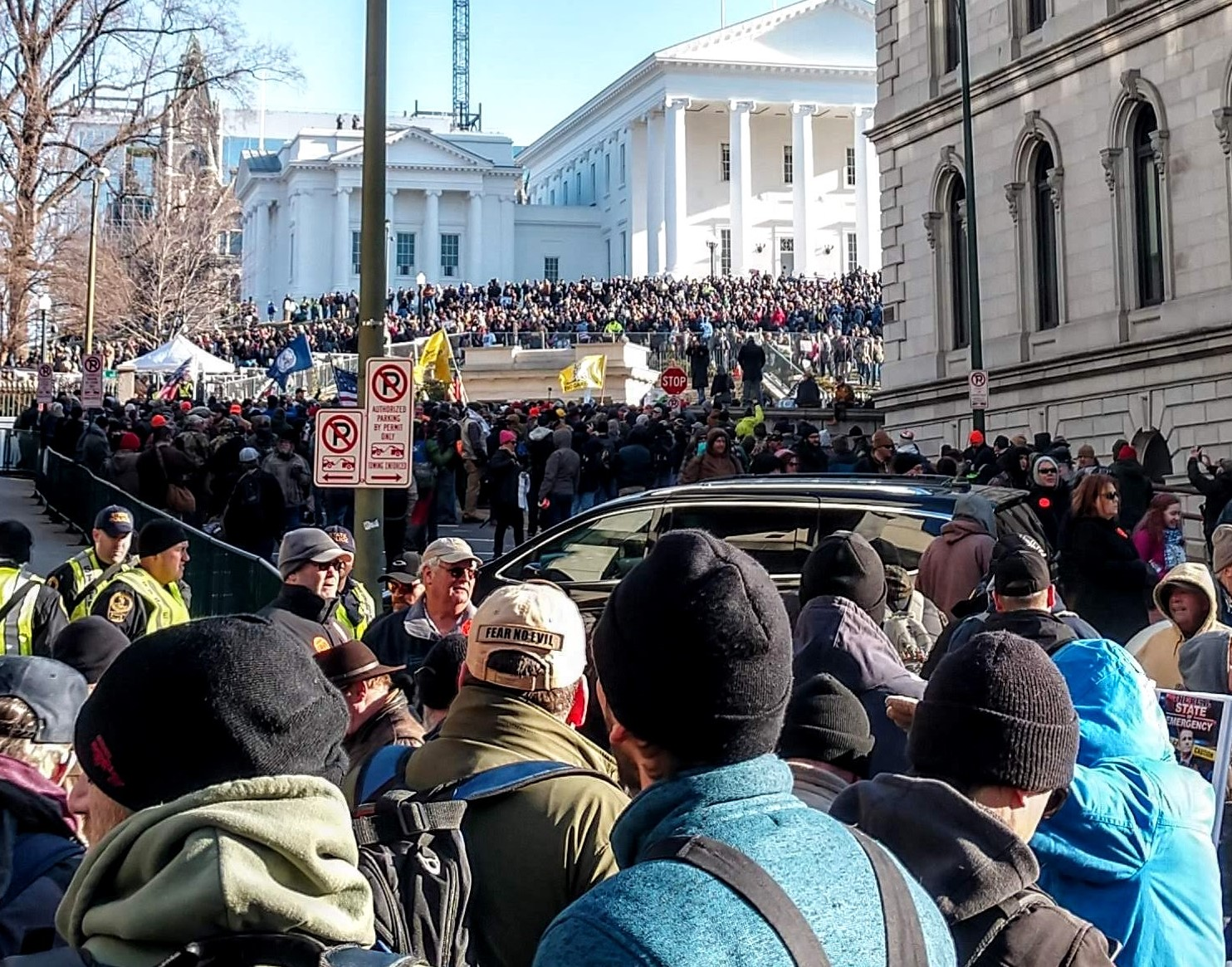 Protestors at the Intersection of East Main and North 10th Street at Richmond Virginia attending the VCDL Lobby day on January 20th, 2020 in support of Gun RIghts.